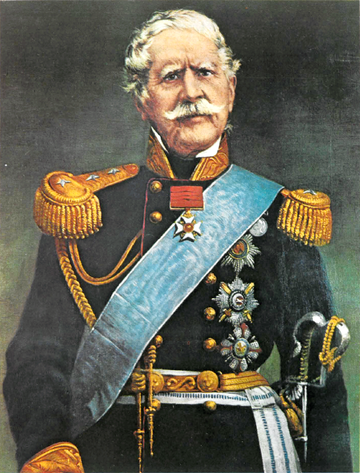 The British officer Richard Church, commander-in-chief of the Greek land forces during the final stages of the Greek War of Independence, in the uniform of a Greek general.